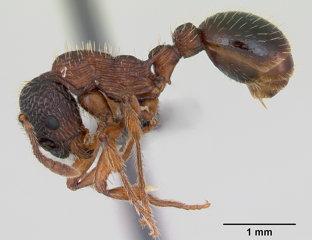 Profile view of ant Myrmica sulcinodis specimen casent0172735.